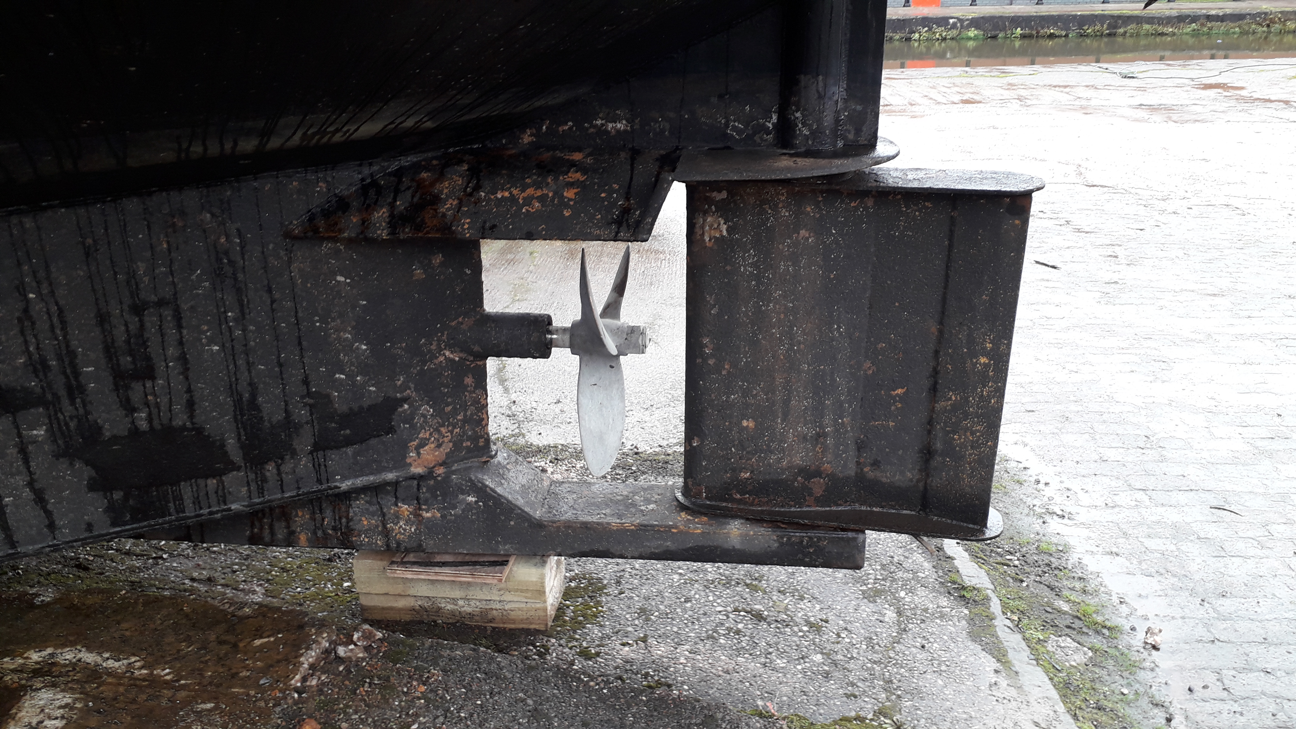 Schilling rudder on an English wide-beam river barge